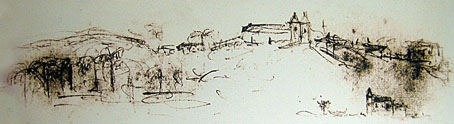 Santa Luzia, by D. Pedro II – Diário do Imperador – v. 24/1a. parte – de 26.03 a 19.04/1881.